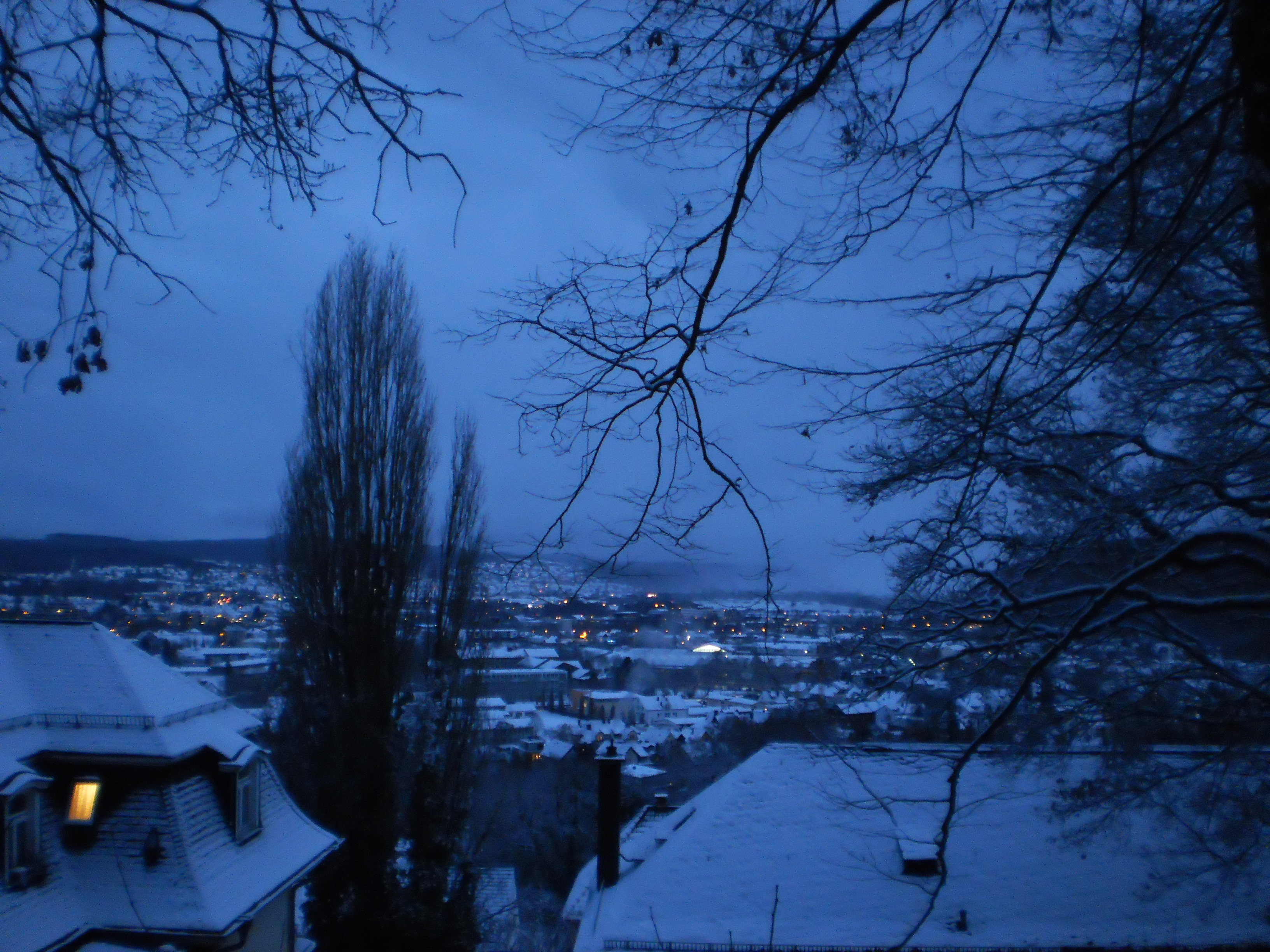 Blue hour in snowy Marburg, a 2017 January winter evening in Hesse (Germany) with fog in the valley of river Lahn, photo on 2017-01-15, taken below Dammelsberg from Sandweg, near the castle.